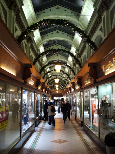 Queen's Arcade, Belfast Interior shot of the shopping arcade that runs from Donegall Place to Fountain Street.